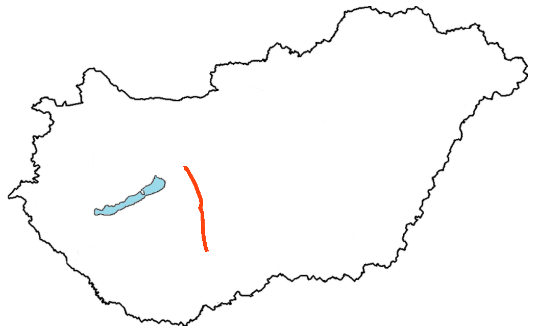 Traject, main road 63, Hungary